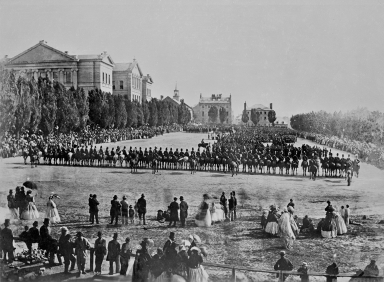 Photograph, Welcome address to returning volunteers from the Fenian Raids, Champ de Mars, Montreal, 1866, copied between 1915 and 1920, William Notman (1826-1891), Silver salts on film - Gelatin silver process - 20 x 25 cm